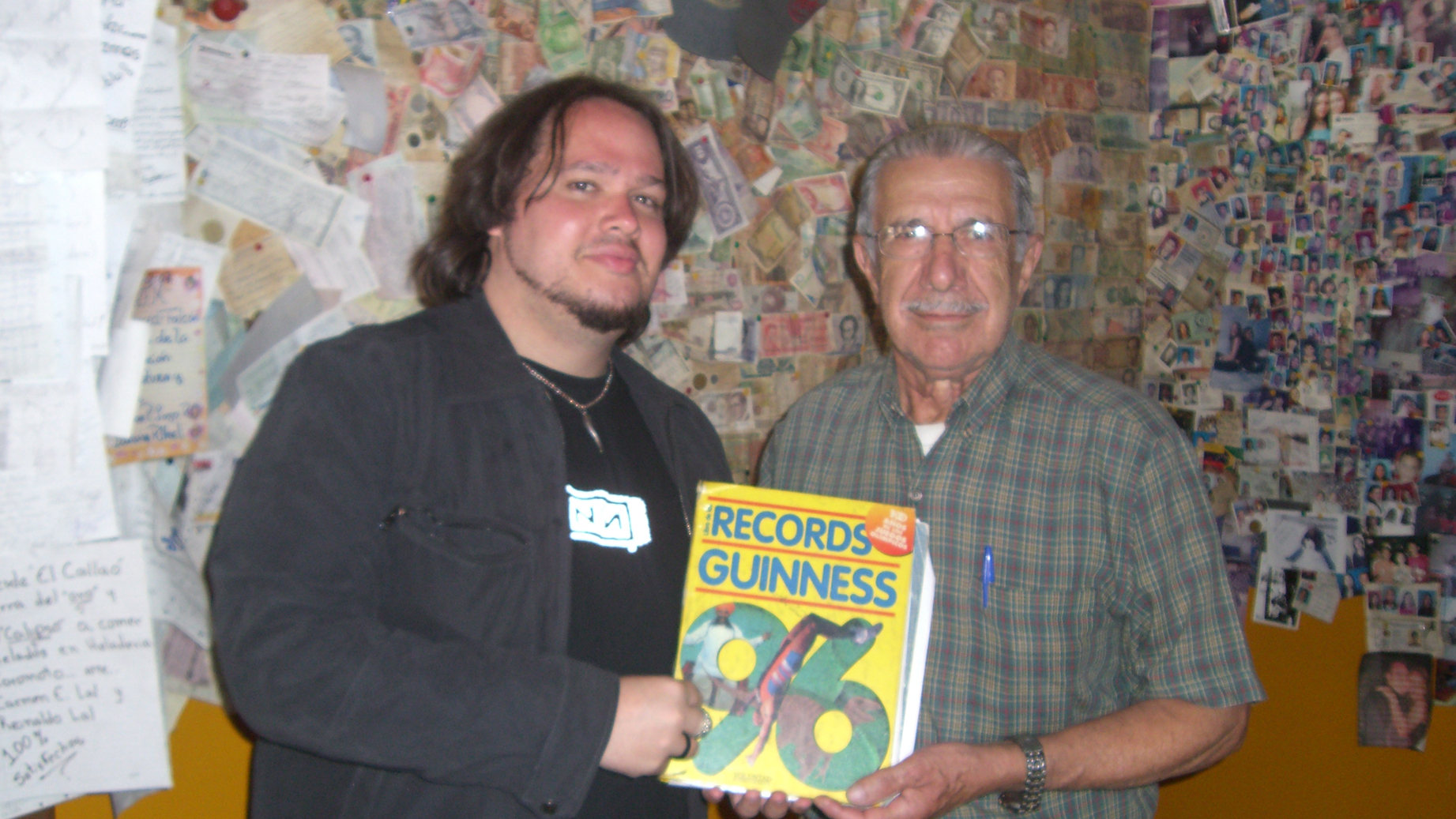 Heladeria Coromoto, Record Guiness. Con el verdadero "papá de los helados" (Translation: With the true, Father of ice cream)